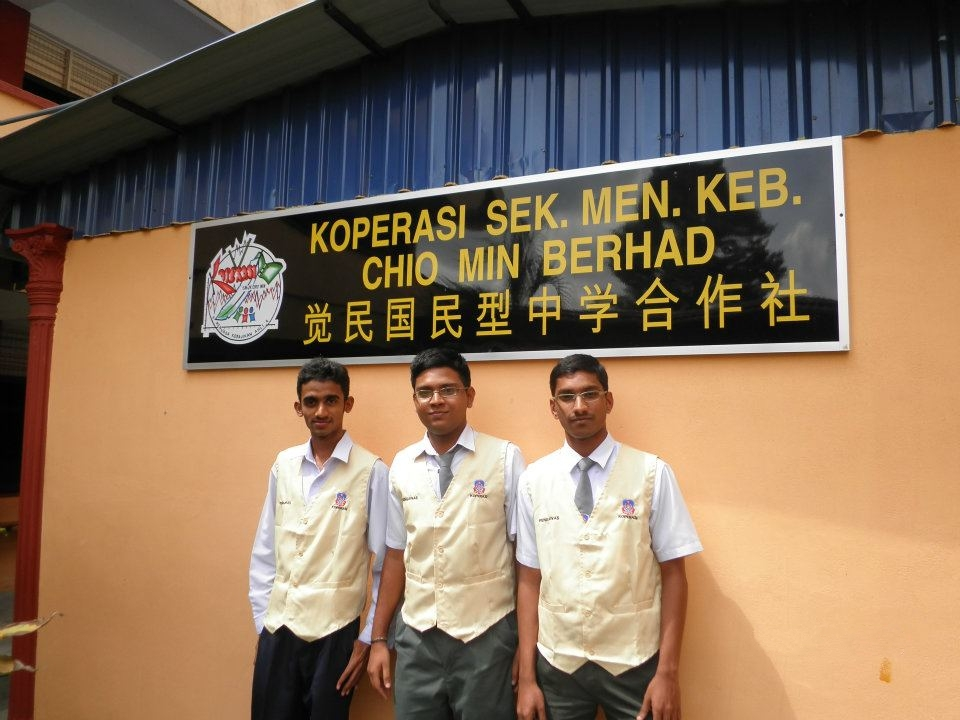 Malaysian Indian boys at Koperasi Sek. Men. Keb Chio Min Berhad